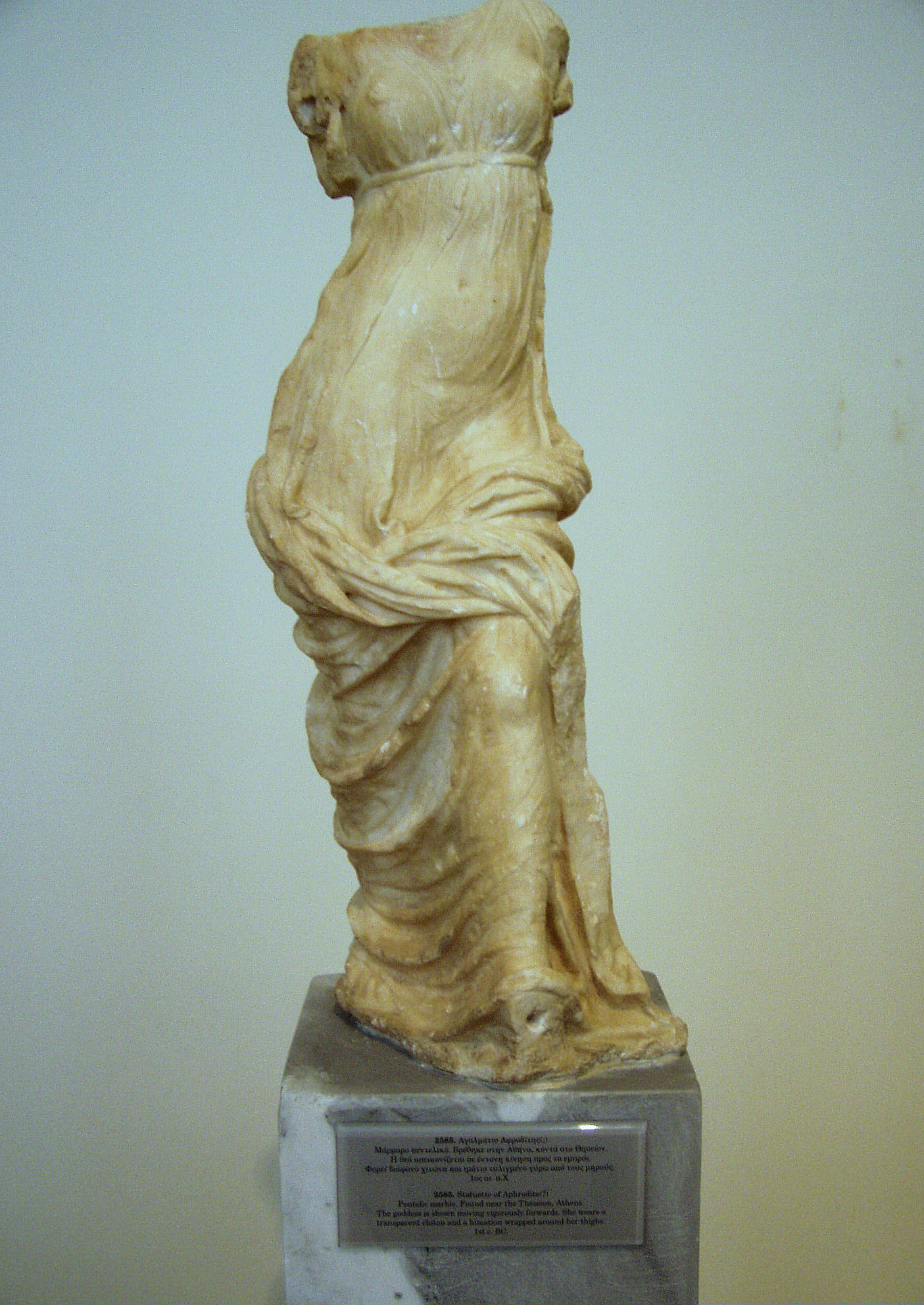 Possibly statuette of Aphrodite at the NAMA, Nr 2585.